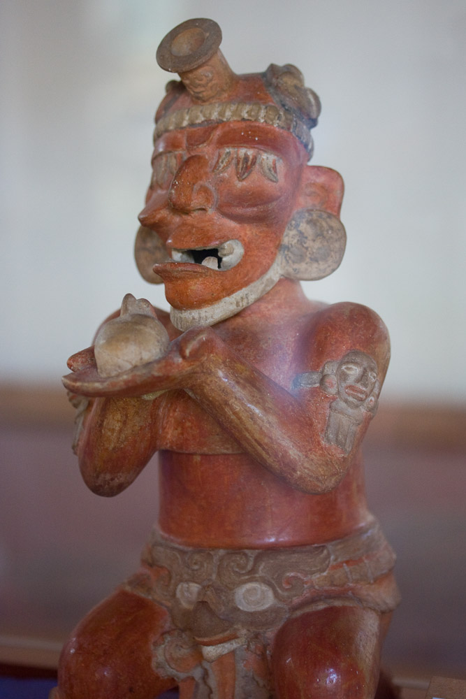 Maya site of Tikal (Guatemala). Ceramic vessel from Burial 10 known as the "Old Man Deity", the sun god in his night form